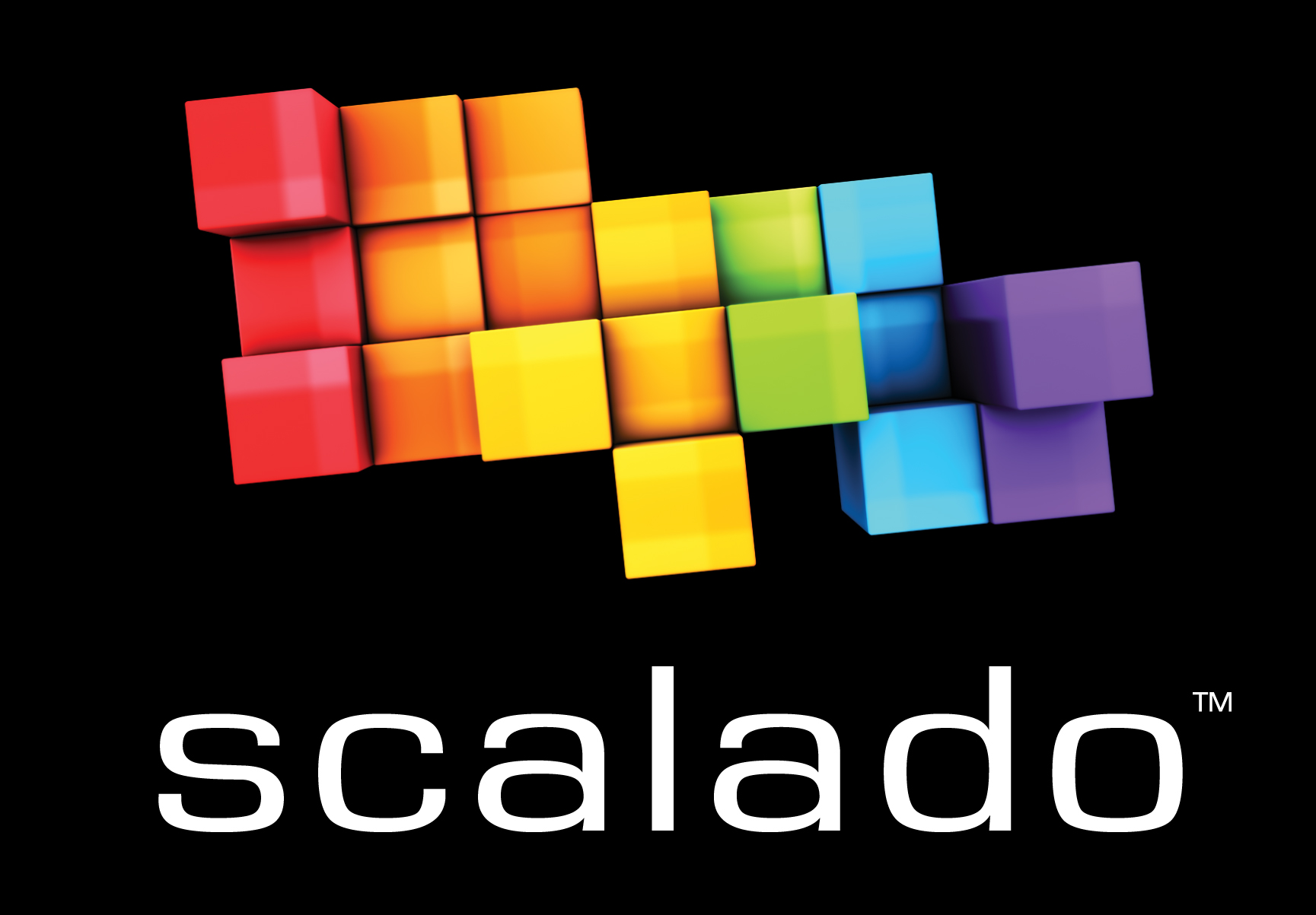 I downloaded the company logo from their presskit on their website.